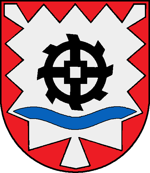 Coat of arms of the municipality Oststeinbek in Schleswig-Holstein, Germany.